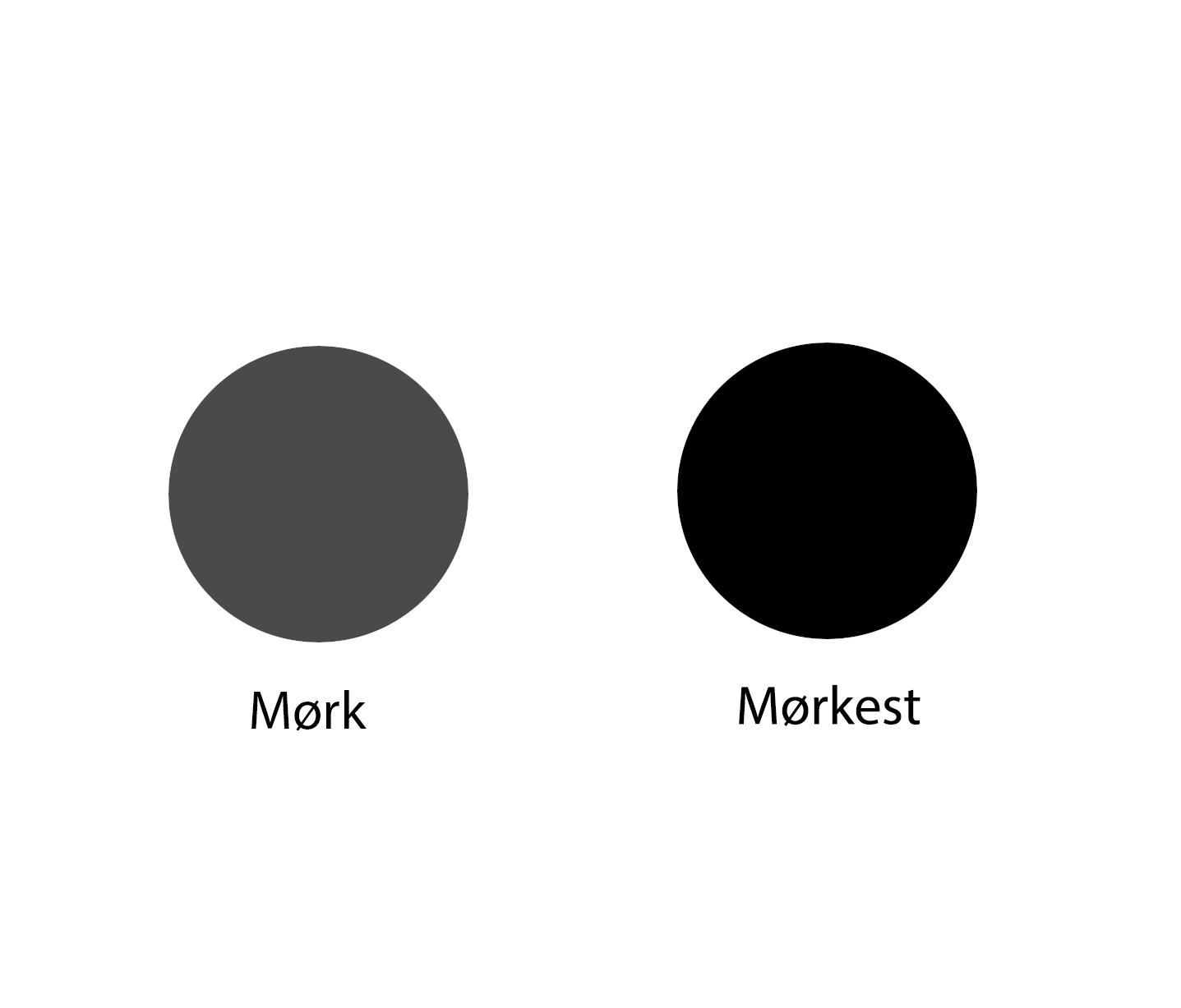 Illustration exemplifying the definition of "superlative" - dark/darkest